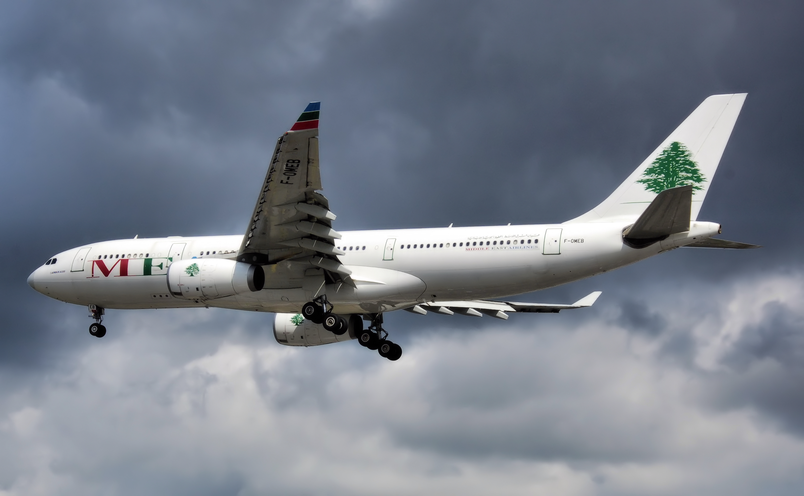 Middle East Airlines Airbus A330-200 (F-OMEB) lands at London Heathrow Airport, England.